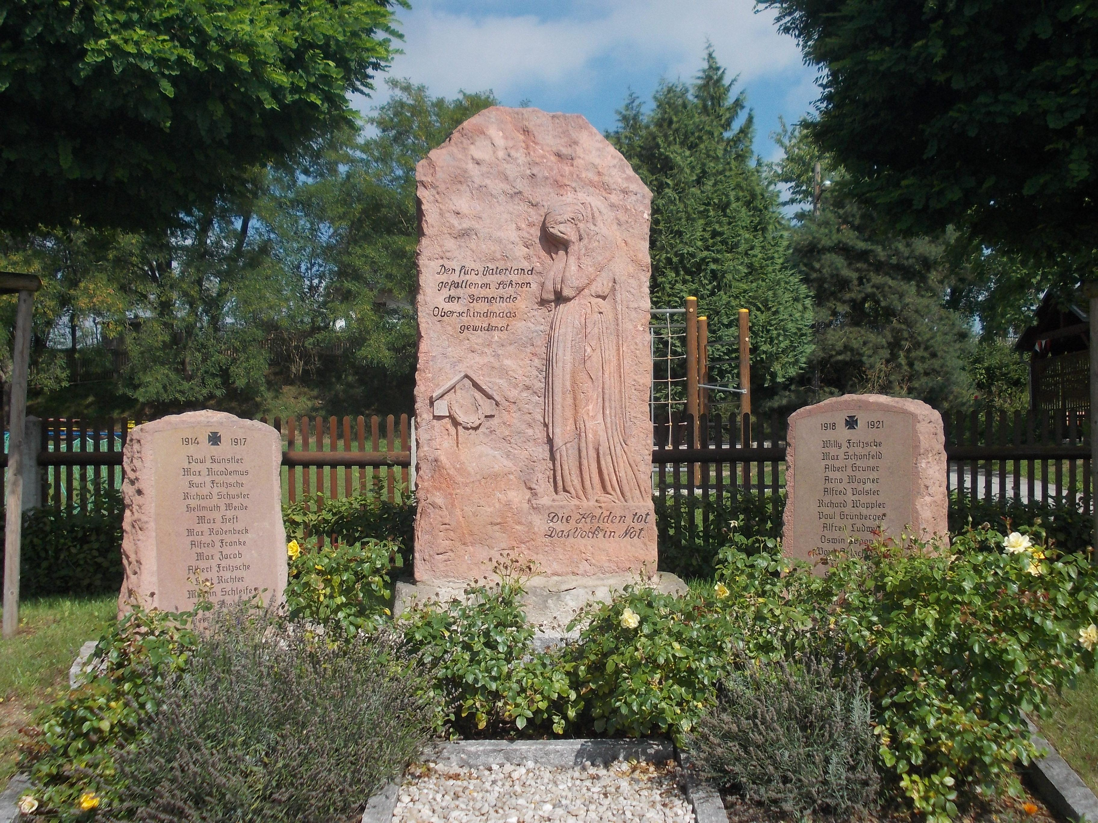 World War I memorial in Oberschindmaas (Dennheritz, Zwickau district, Saxony)